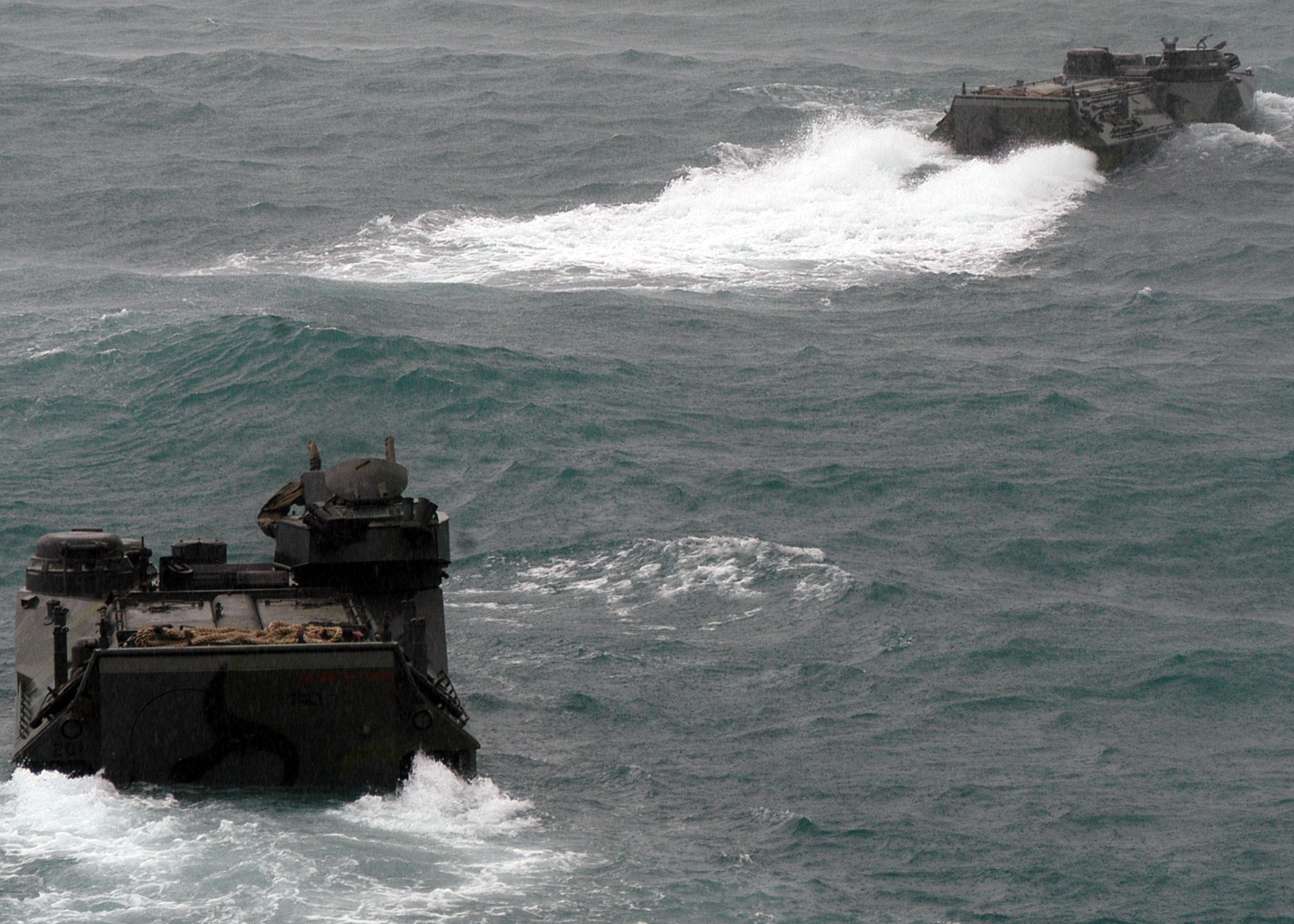 Royal Thai Navy AAV-7A1 amphibious assault vehicles, assigned to the medium landing ship HTMS Surin (LST 722), disembark from the dock landing ship USS Tortuga (LSD 46) during cooperation afloat and readiness training (CARAT) 2008, off the coast of Thailand June 15, 2008. CARAT 2008 is an annual series of bilateral exercises involving the U.S. and Southeast Asian nations. ID: 080615-N-5831F-190